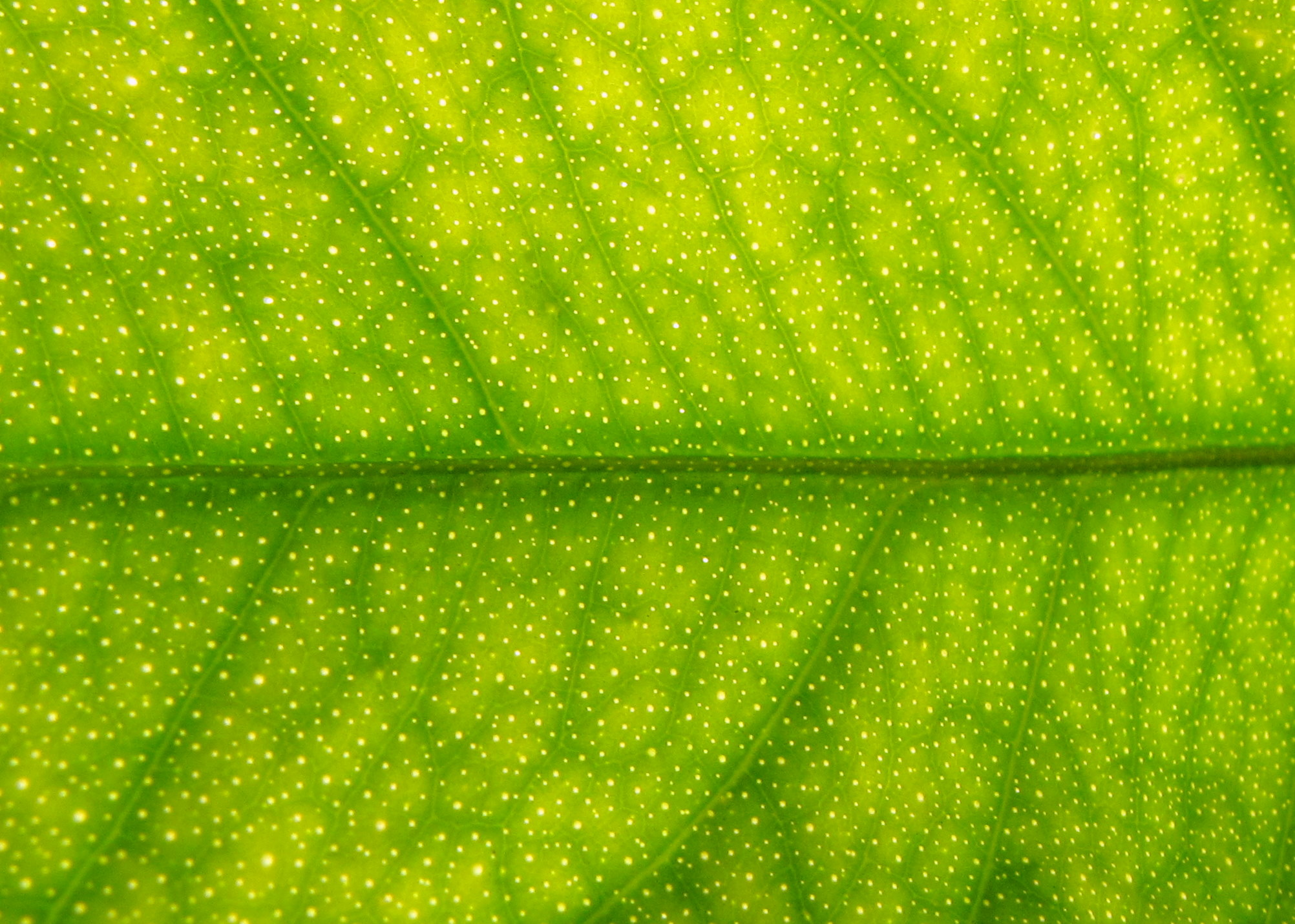 This image shows close detail of the citrus leaf. It includes veins, pores, and surface of the leaf.